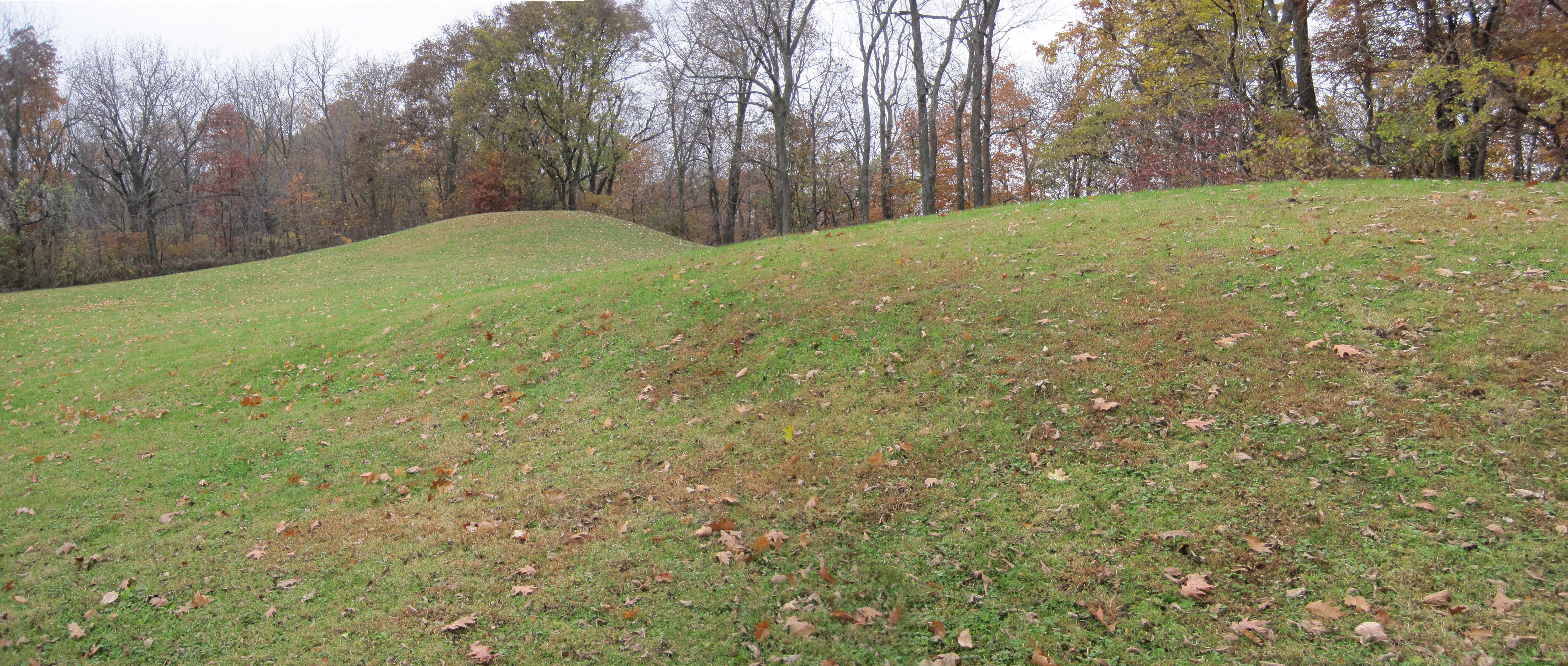 Toolesboro Mound Group, Iowa Bill Whittaker (talk) 16:23, 2 November 2009 (UTC)